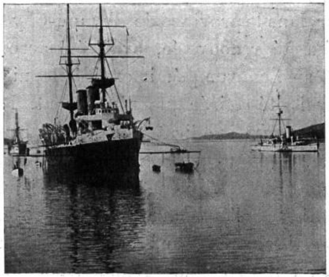 "Astrea" of the Royal Navy. HMS Astraea (1893)